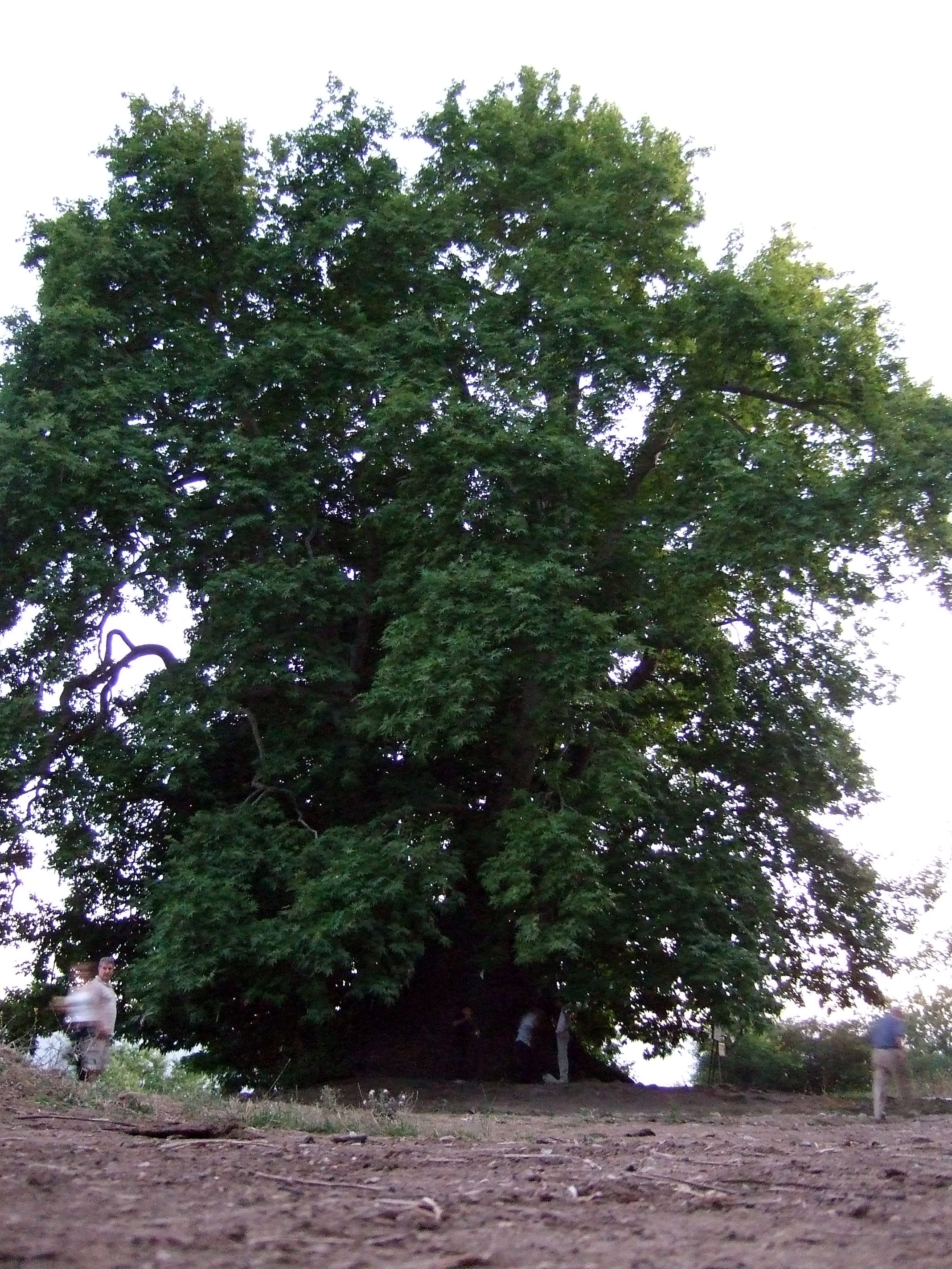 2000-year-old platan tree at Skhtorashen Village, Artsakh